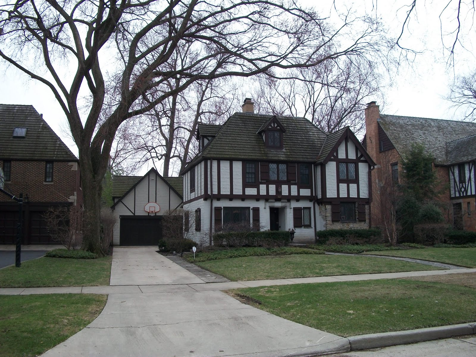 This house is located in Evanston, Illinois.